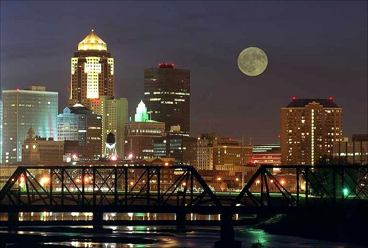 Des Moines skyline at night